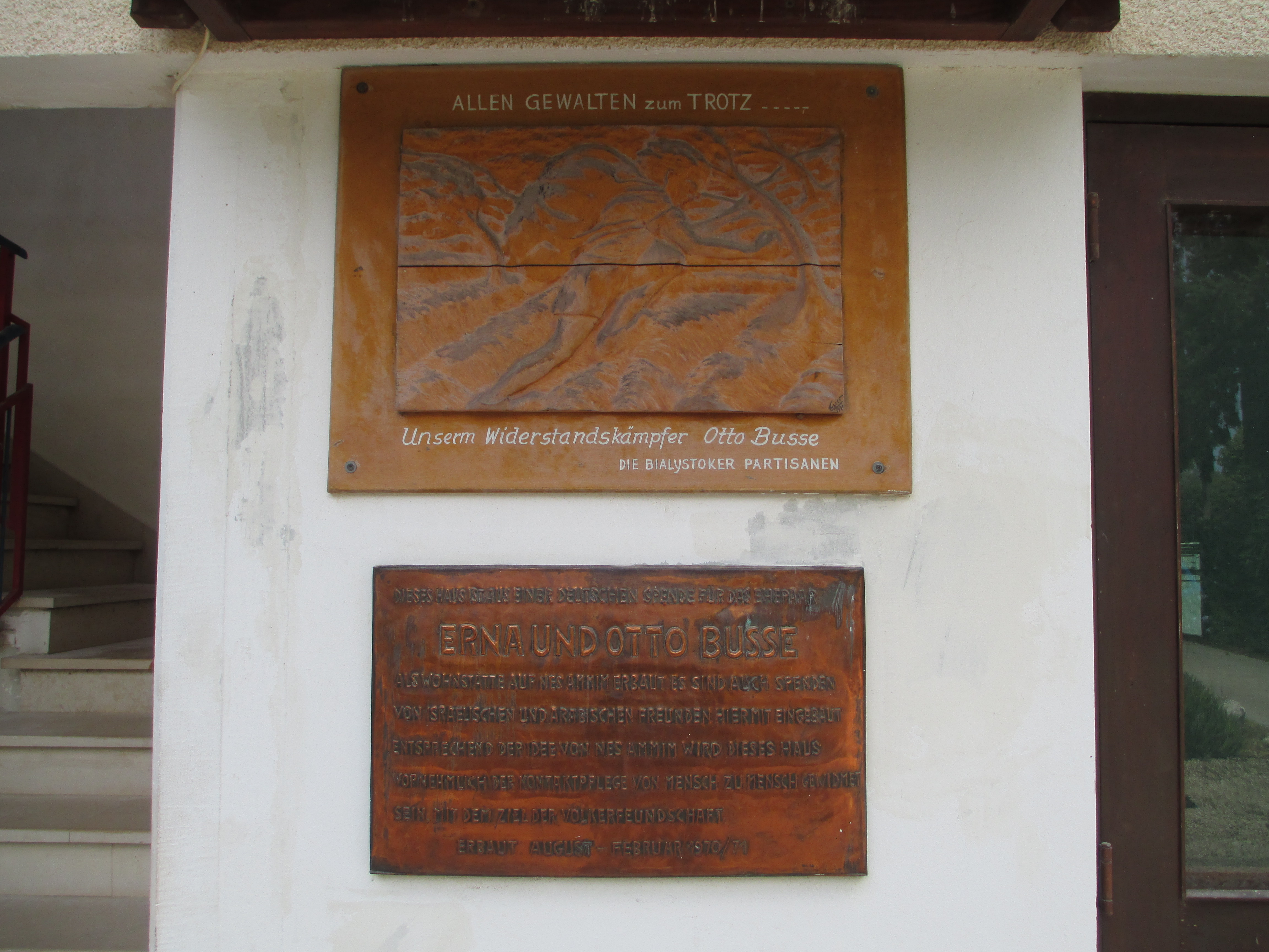 Otto Busse house in Ness Ammim